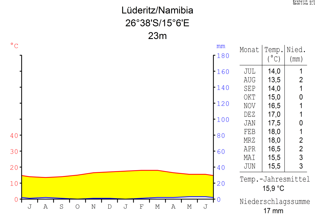 climate chart in the format by Walther and Lieth, metric, °Celsisus and millimeters, made with Geoklima 2.1 DateOctober 2006SourceSoftware: Geoklima 2.1 Website GeoklimaAuthorHedwig in WashingtonPermission (Reusing this file) Own work, attribution required (Multi-license with GFDL and Creative Commons CC-BY 2.5)